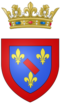 Coat of arms of the Count of Soissons